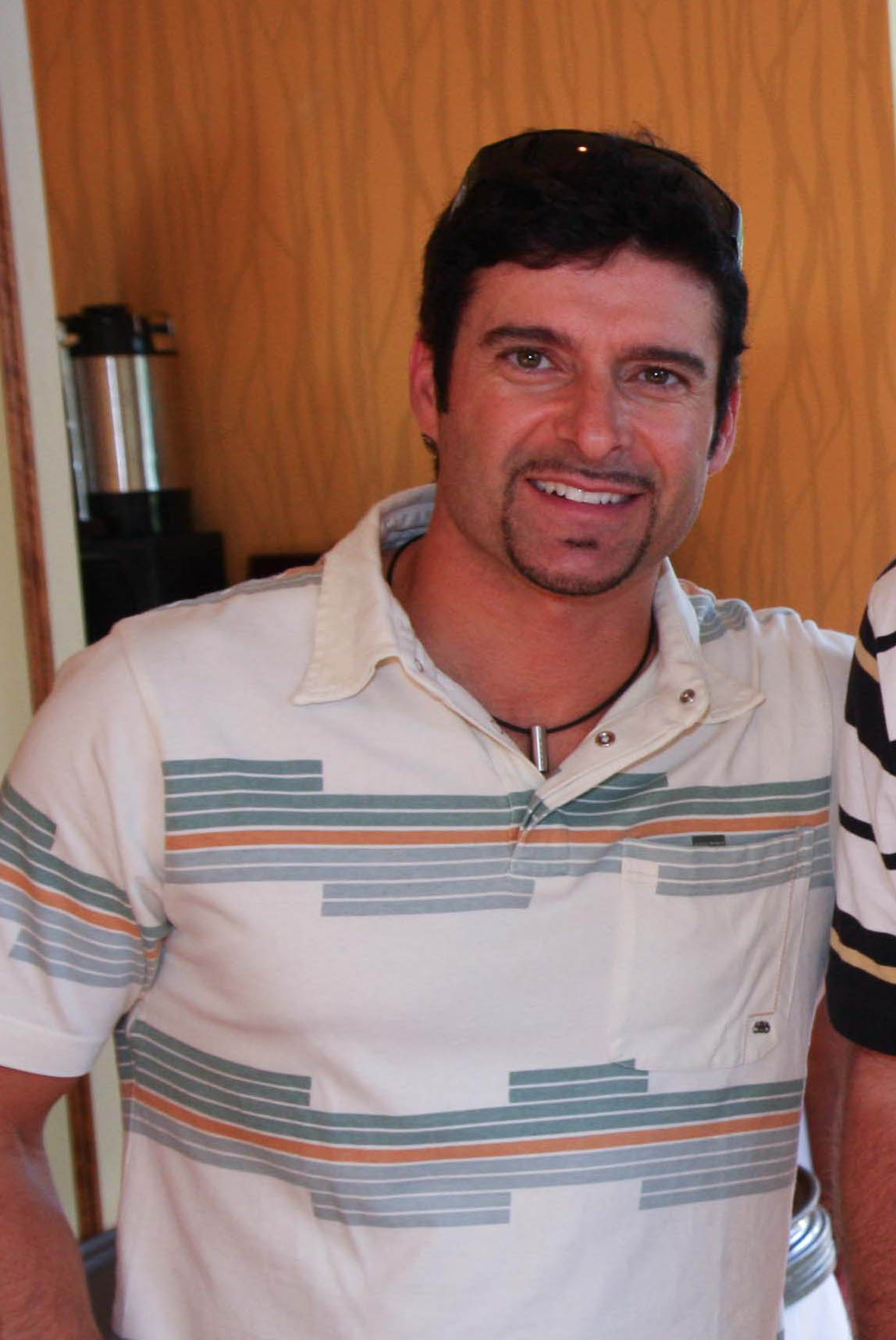 Alex Tagliani at the Mont-Tremblant Legends of Motorsport historic racing event in 2010.